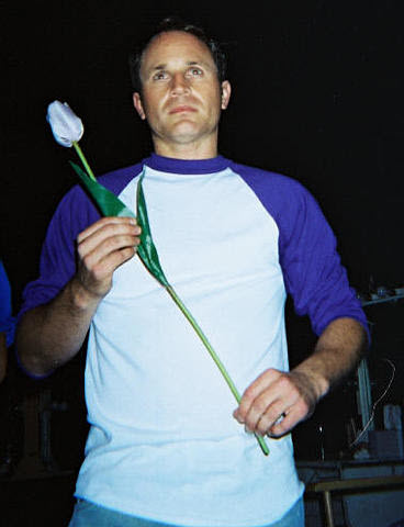 Portrait of David Yost taken by me in which I believe during summer 2004 at Universal Studios Hollywood.